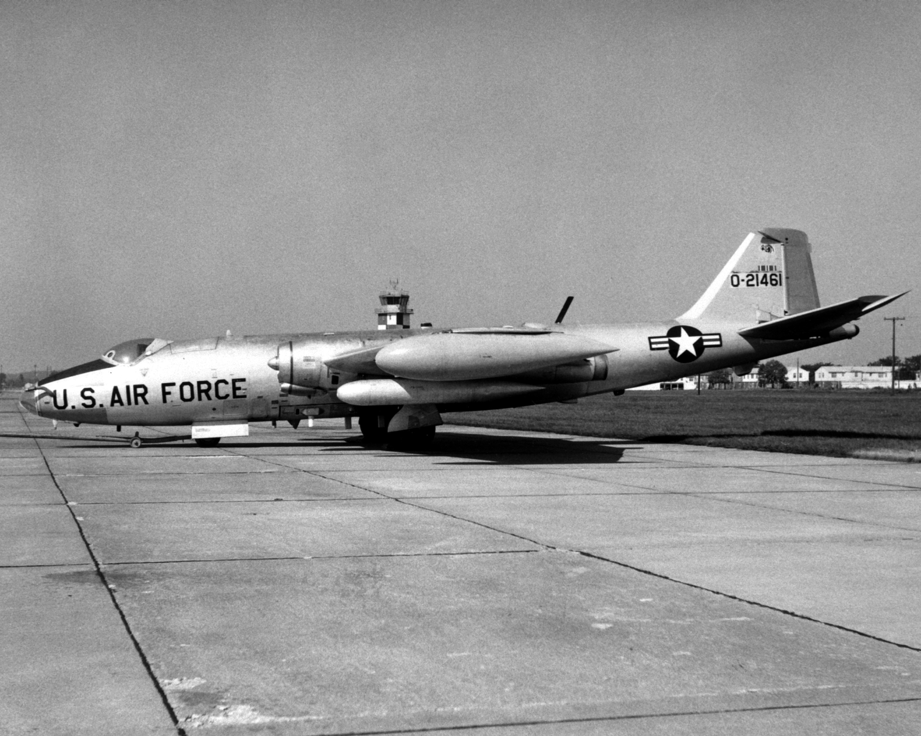 Left side view of a EB-57A Canberra aircraft parked on the flight line. Location: SCOTT AIR FORCE BASE, ILLINOIS (IL) UNITED STATES OF AMERICA (USA)